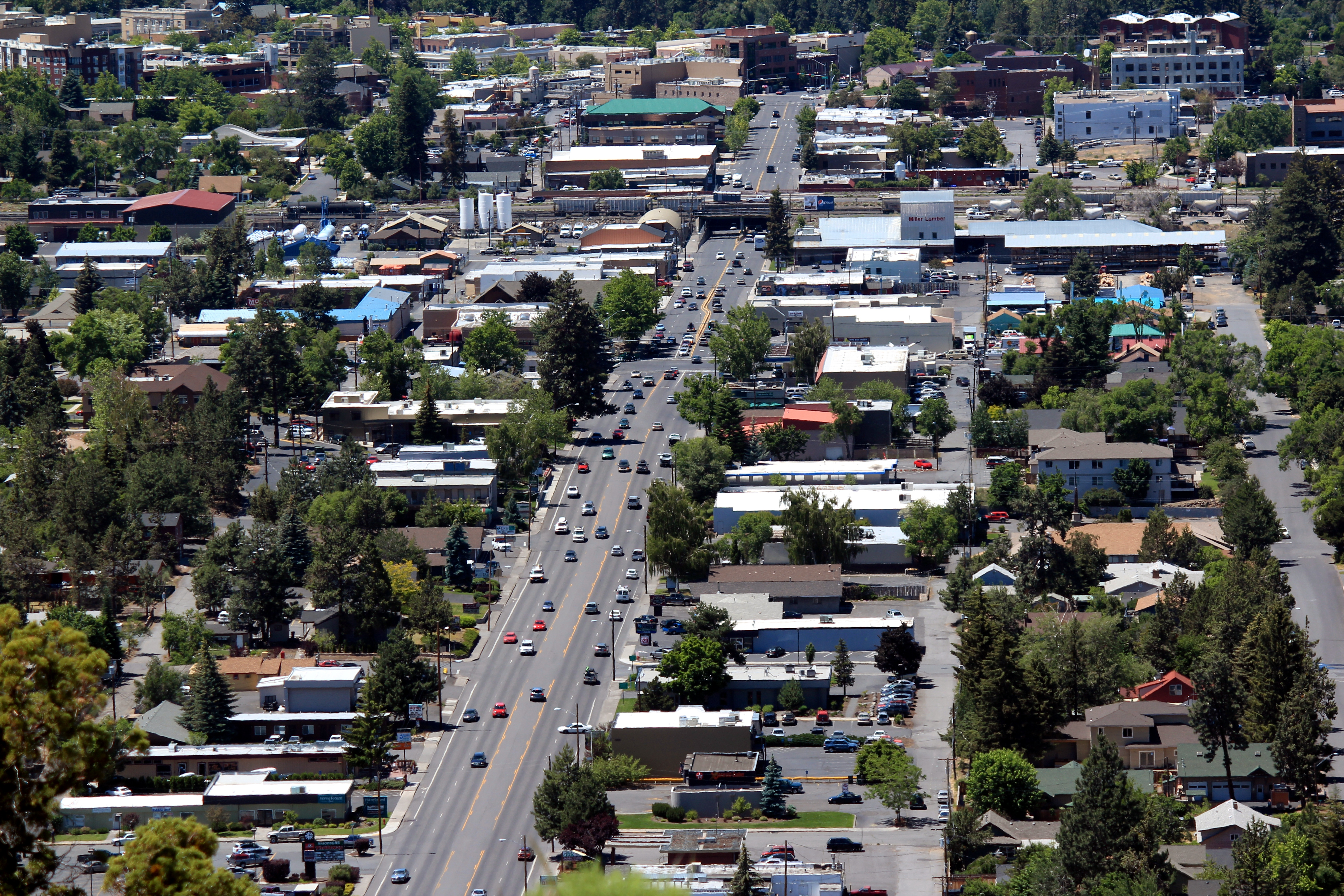 View of Bend, Oregon from Pilot Butte.